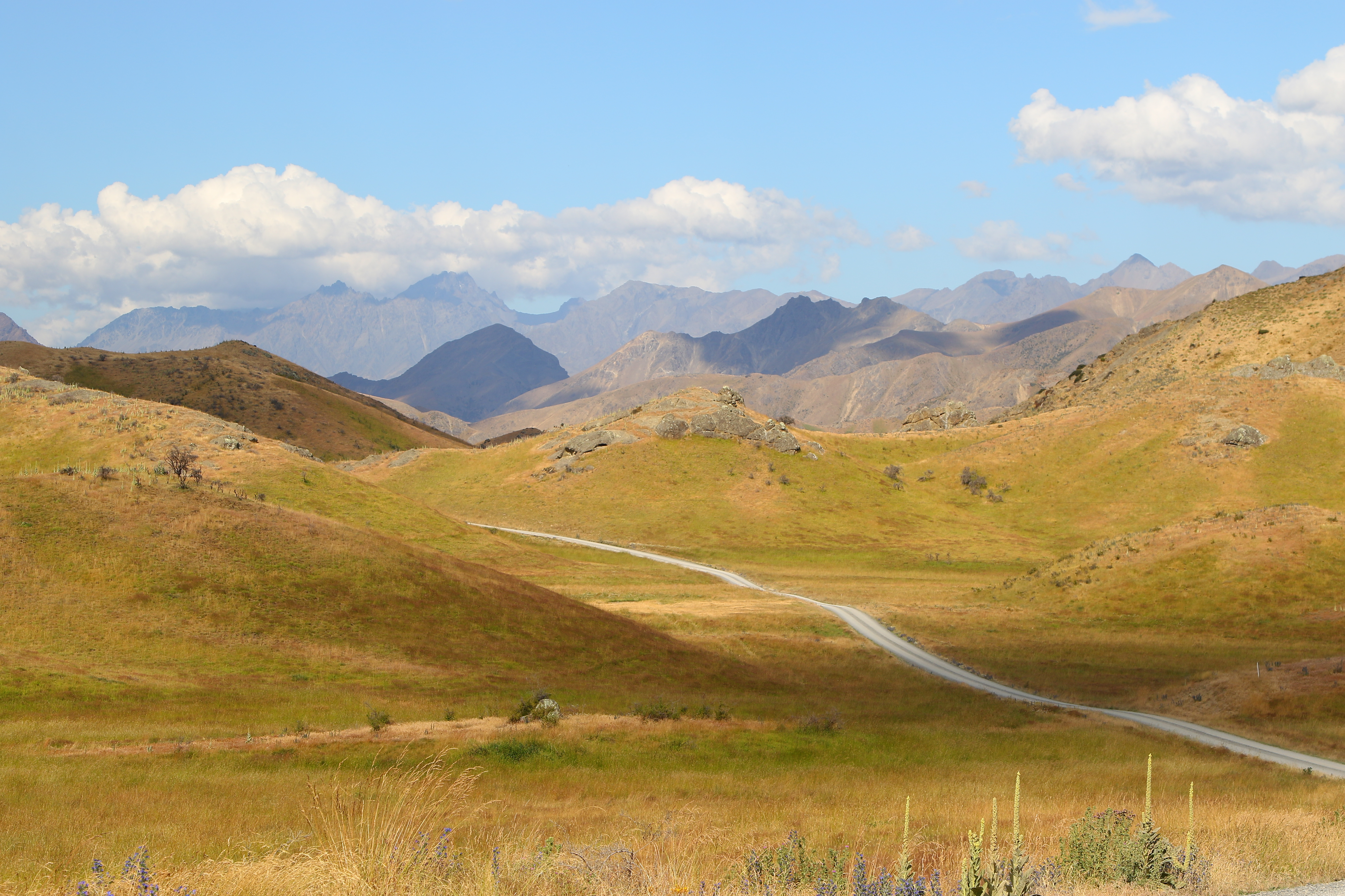 Molesworth east near Smokey Stream, from -42.077257, 173.273294